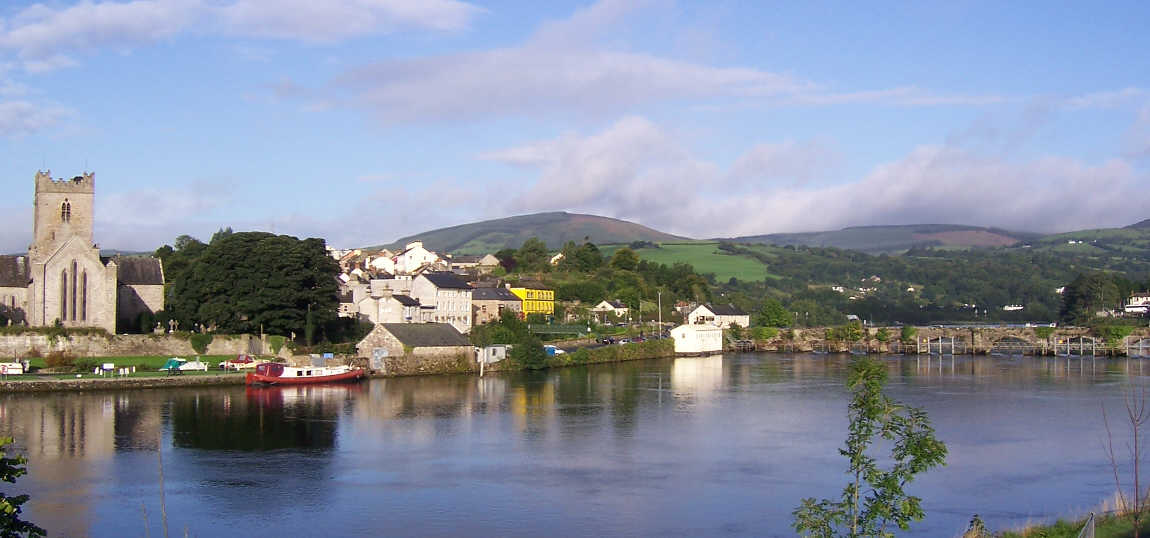 Killaloe, County Clare with the Shannon in the foreground and St Flannan's Cathedral on the left